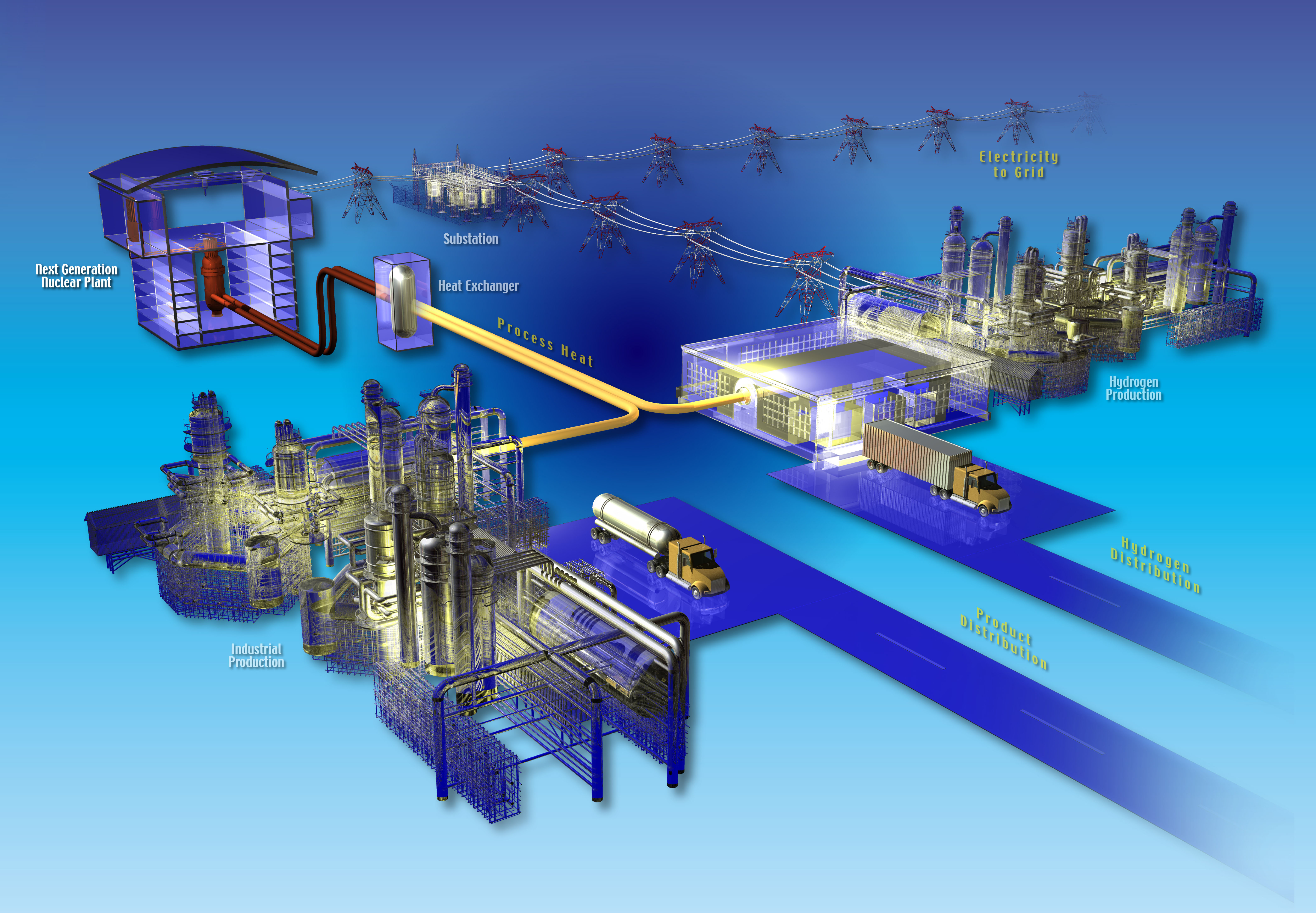 The Next Generation Nuclear Plant will produce heat and hydrogen for industrial manufacturing as well as electricity for homes. For more information about INL's research projects and career opportunities, visit the lab's facebook site.